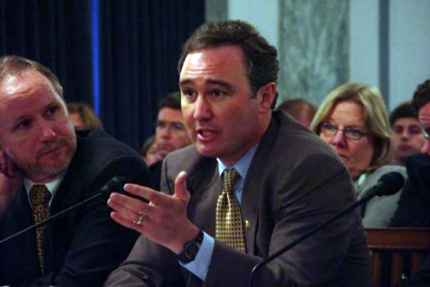 American politician John Morrison providing testimony to the United States Senate in 2005.